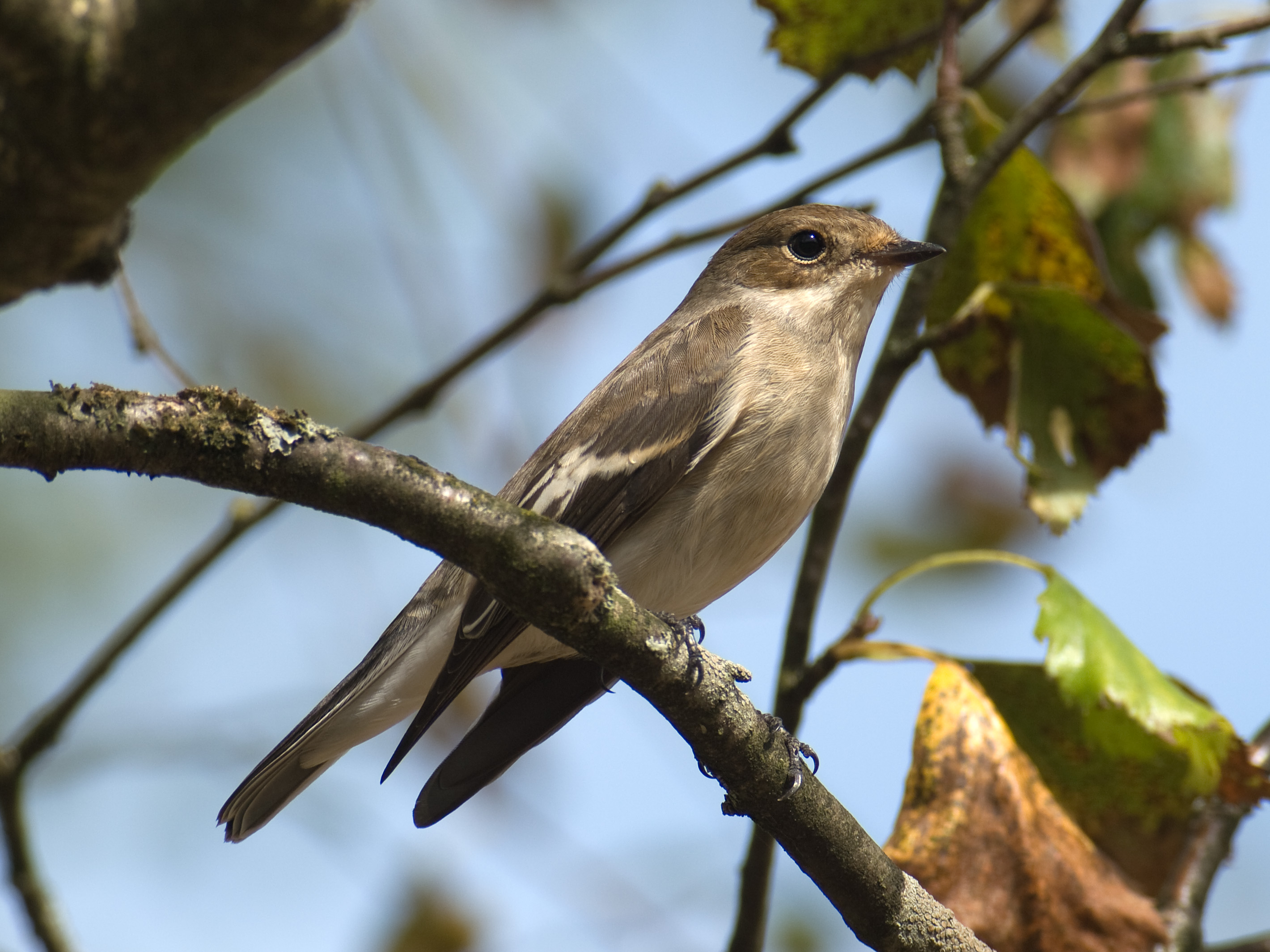 European Pied Flycatcher, Ficedula hypoleuca, female; Picture taken at the Kochelsee/Bavaria